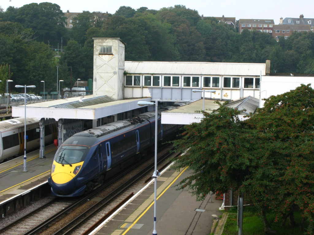 Southeastern's 'Javelin' 395018 stands at Dover Priory station with a high speed service to London St Pancras.